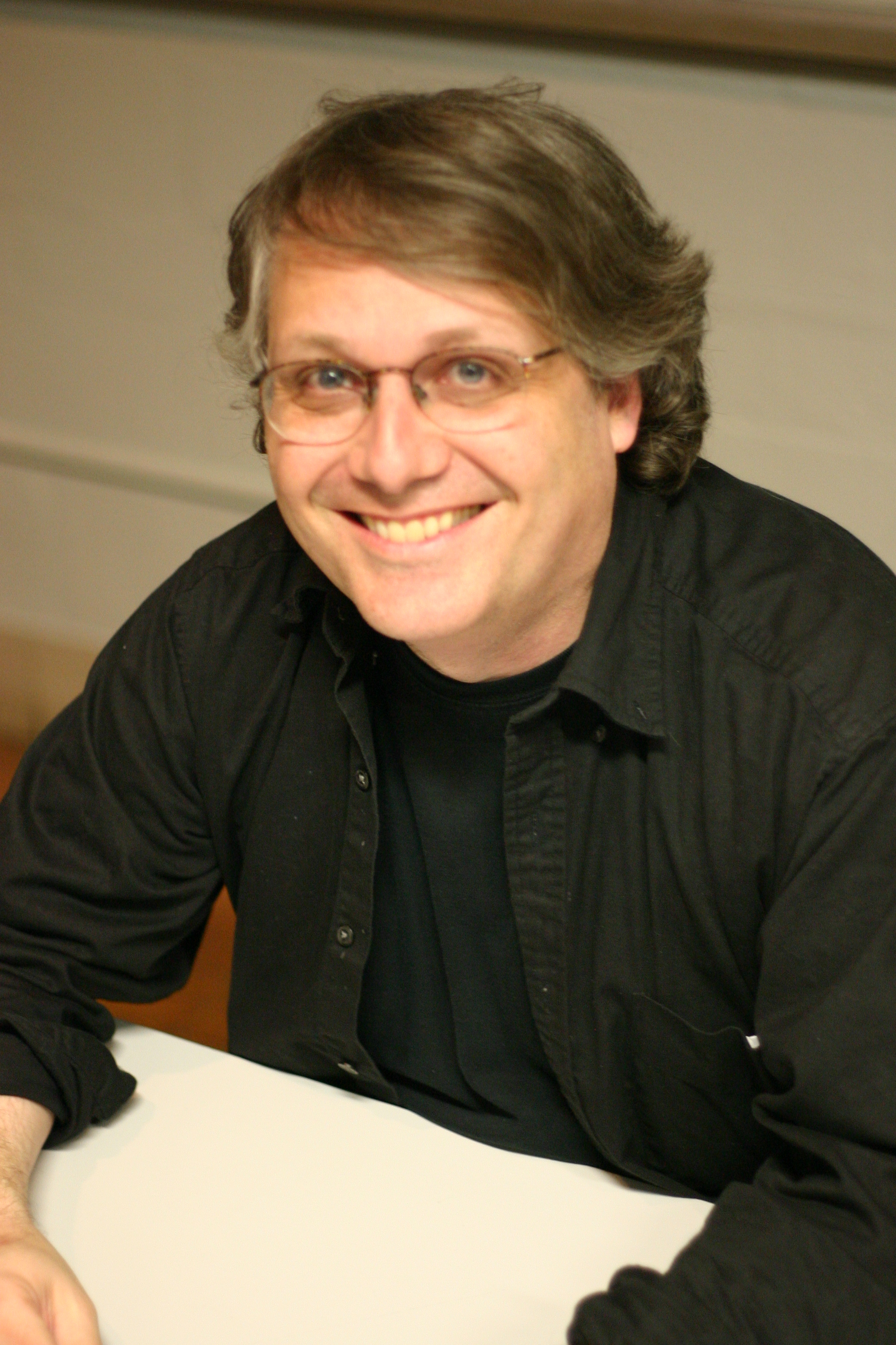 Scott McCloud at the Rhode Island School of Design, as part of his 50-state "Making Comics" tour. This was taken at the end of a Q&A; I asked if I could take a picture for Wikipedia, and he said yes. Taken with a Canon Digital Rebel with a 50/1.8 lens, 1/40s, ISO 800.